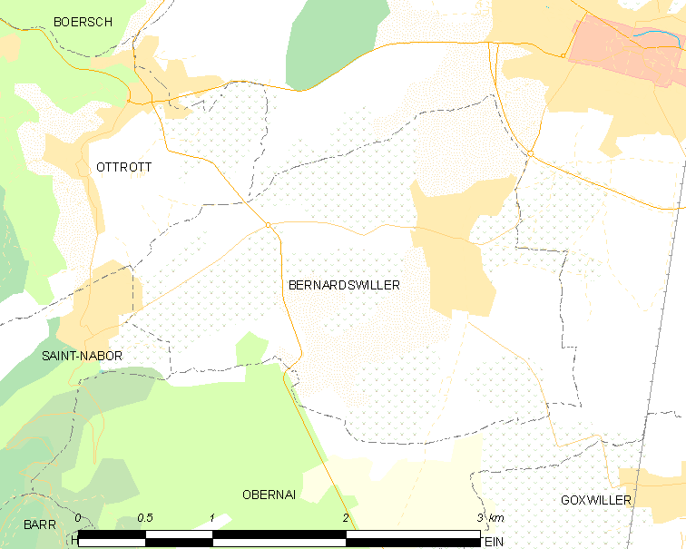 Map of French municipality